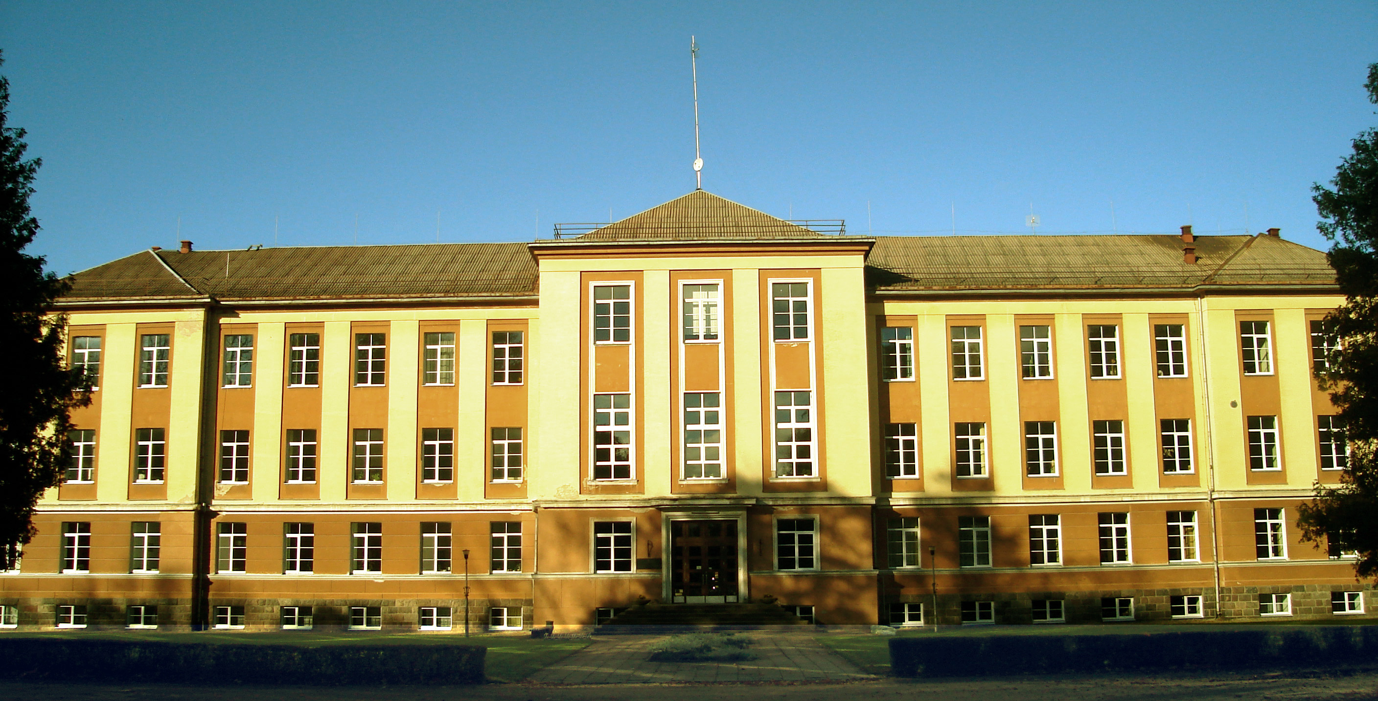 Picture of Agriculture Institute in Akademija, Lithuania